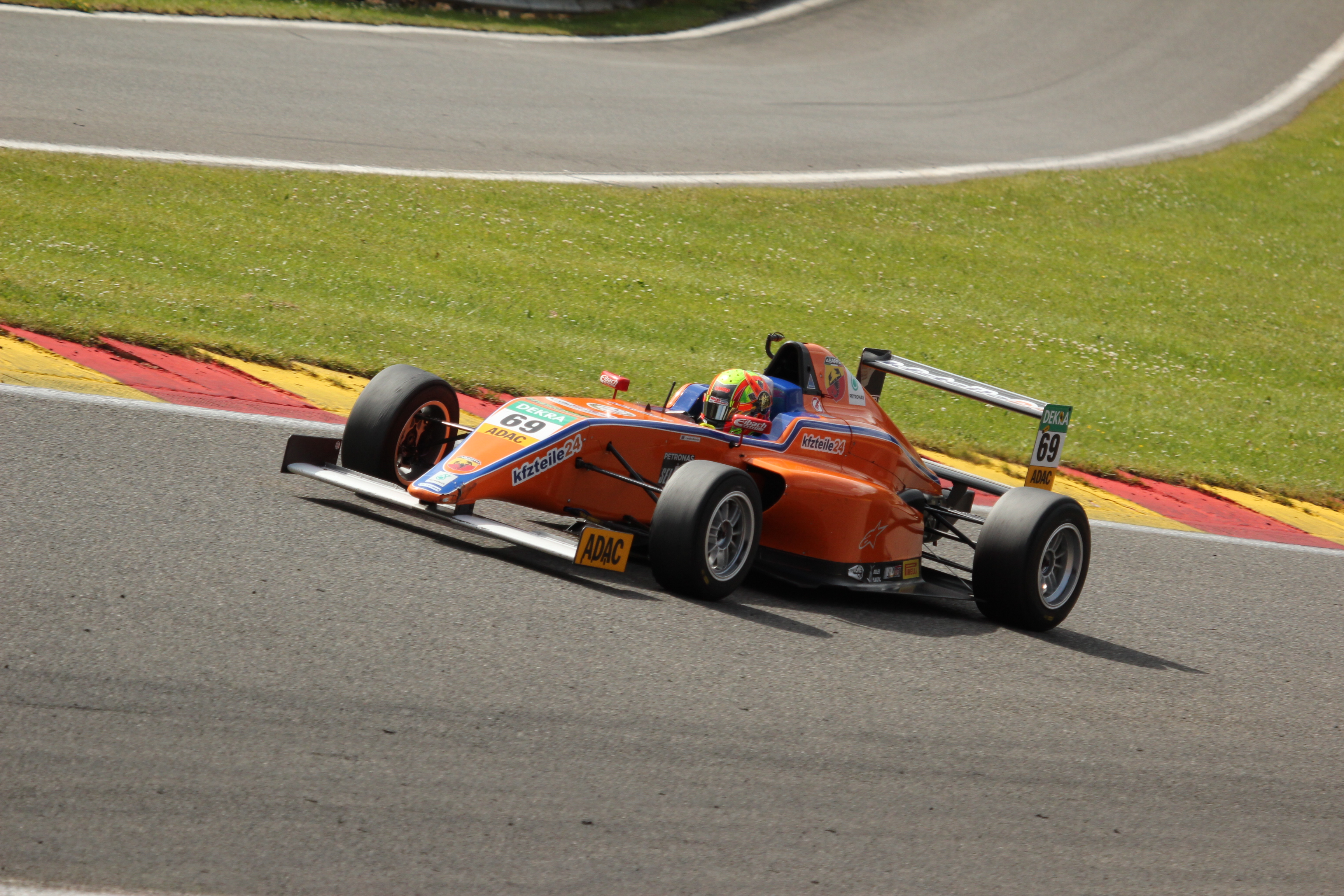 Lando Norris at Spa in 2015, German Formula 4 Championship